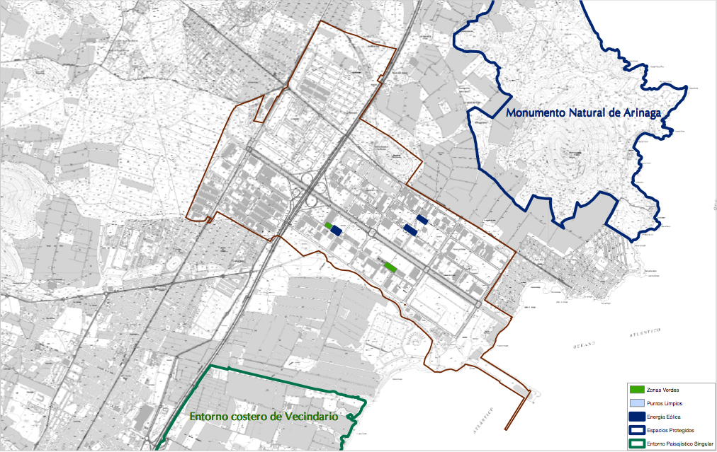 Generally the Poligono Industrial Arinaga.